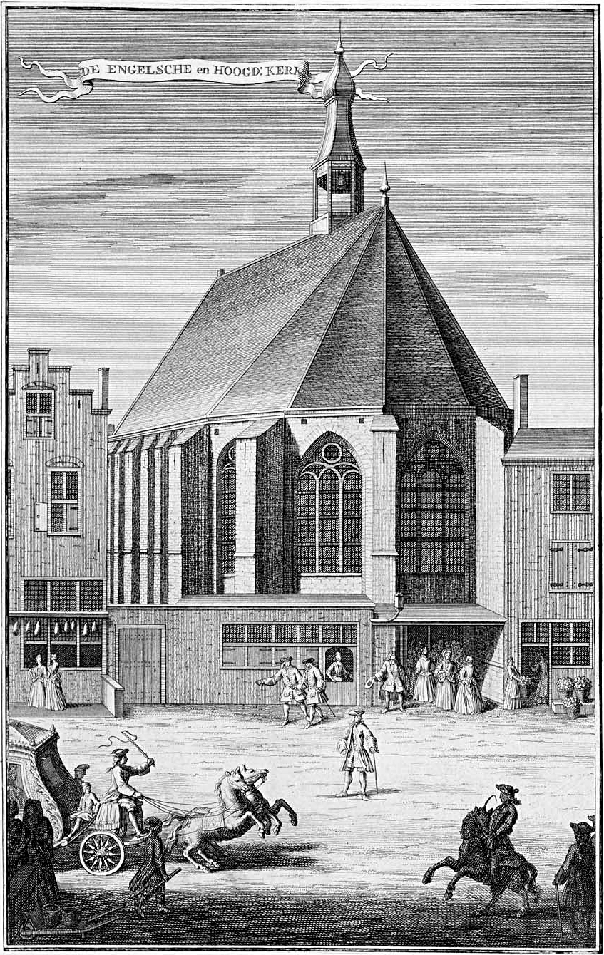 The English and High German Church in The Hague, located at Noordeinde street.